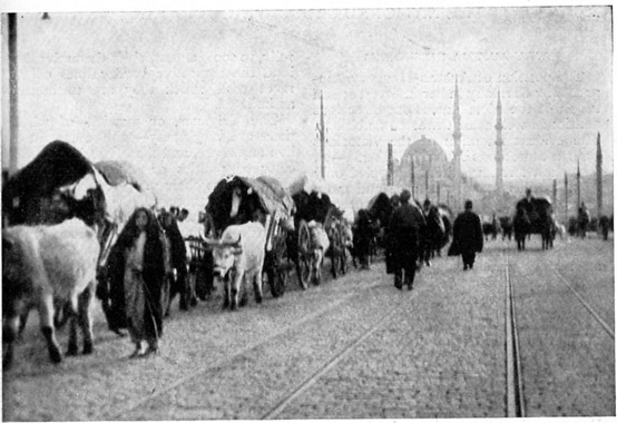 Muhajirs from Balkans in Turkey during the First Balkan War.